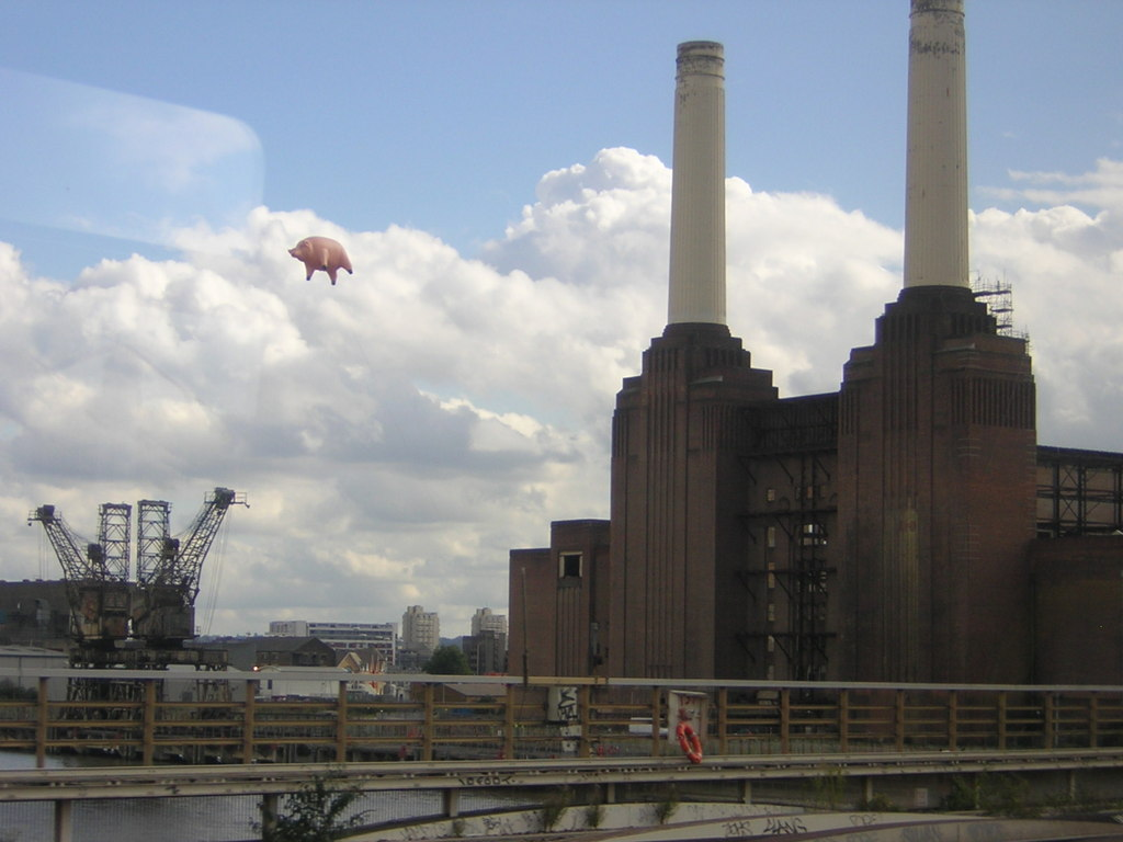 Battersea Power Station: return of the Pink Floyd pig. As publicity for the 2011 campaign to reissue the Pink Floyd back catalogue, an inflatable pig flew over Battersea Power Station on 26th September 2011 as it had done for the cover of their 1977 album “Animals”. This is taken from a passing train, hence the unavoidable reflections.